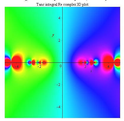 Tanc Re complex 3D plot